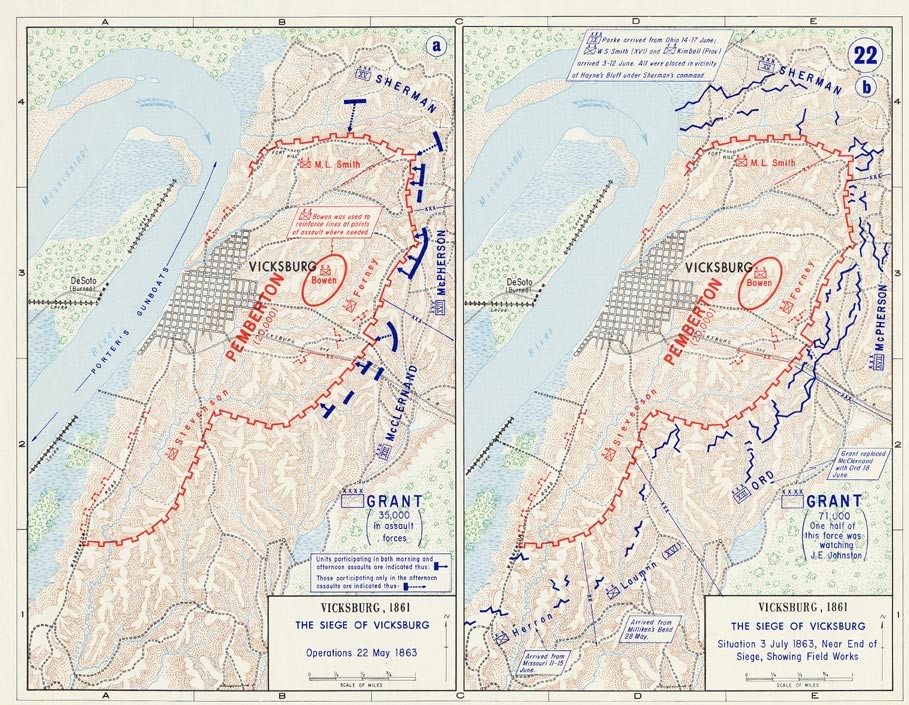 Vicksburg Campaign - Siege of Vicksburg, 22 May and 3 July